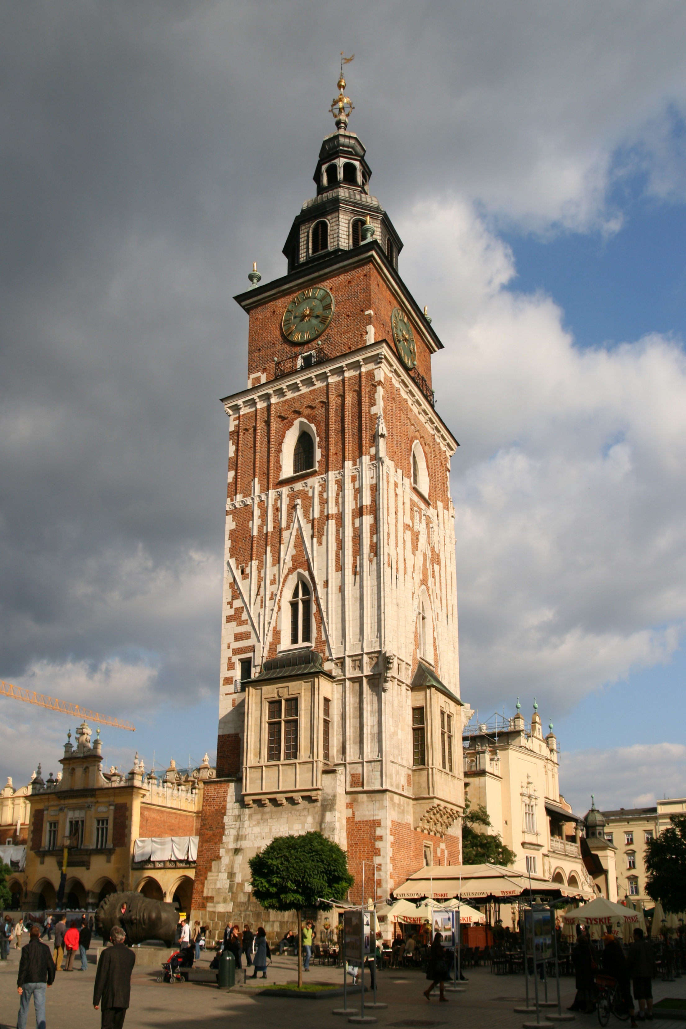 Town Hall Tower in Kraków (Poland).